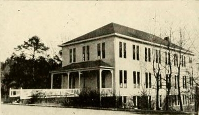 Exterior of The Ark circa 1914